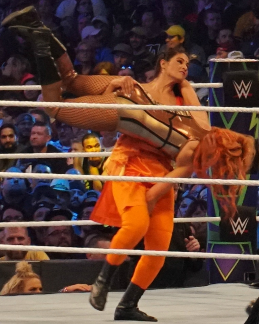 Kavita Devi wrestling Becky Lynch at WrestleMania 34 in April 8, 2018